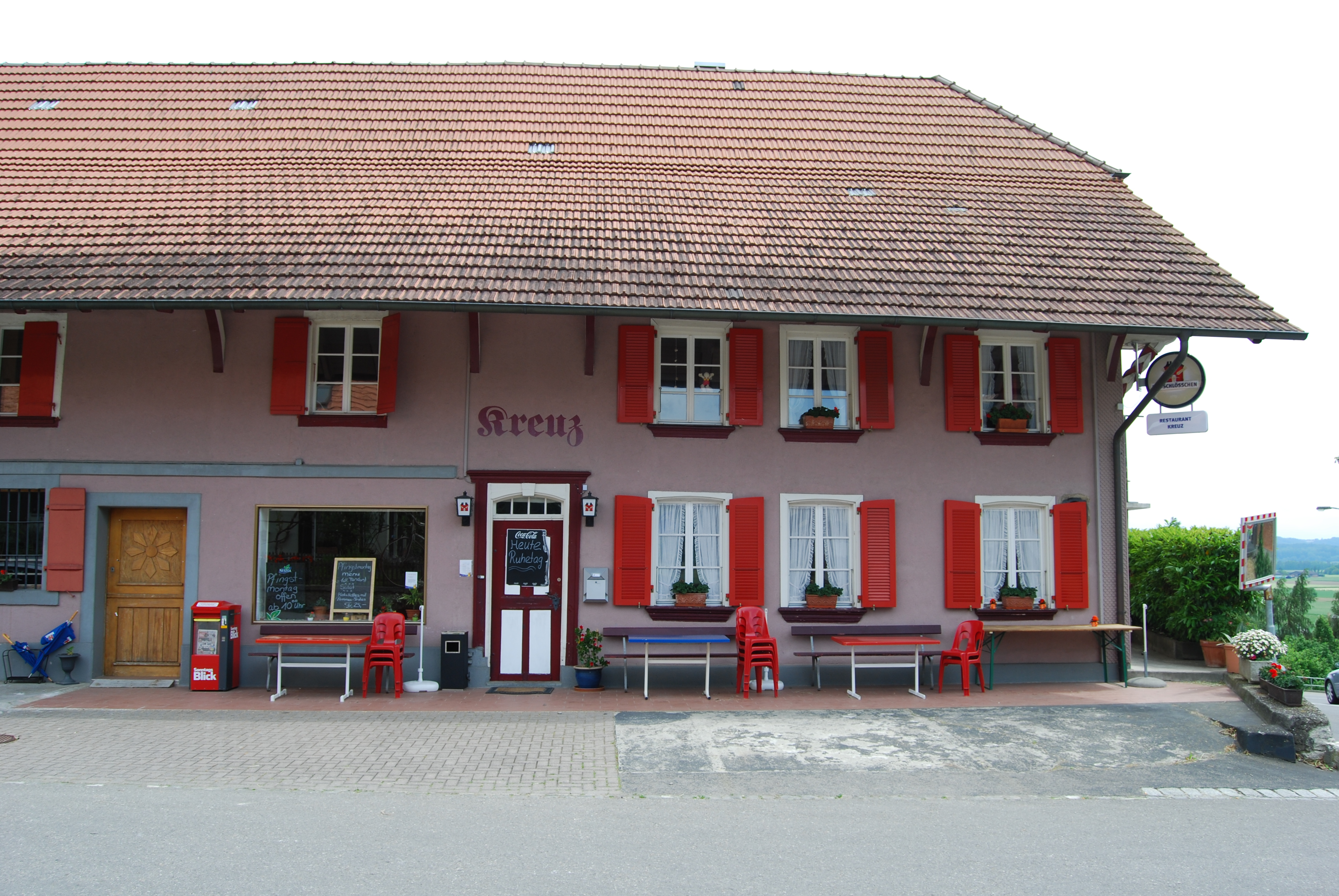 Bühl, canton of Bern, SwitzerlandEsperanto: Bühl, Kantono Berno, Svislando